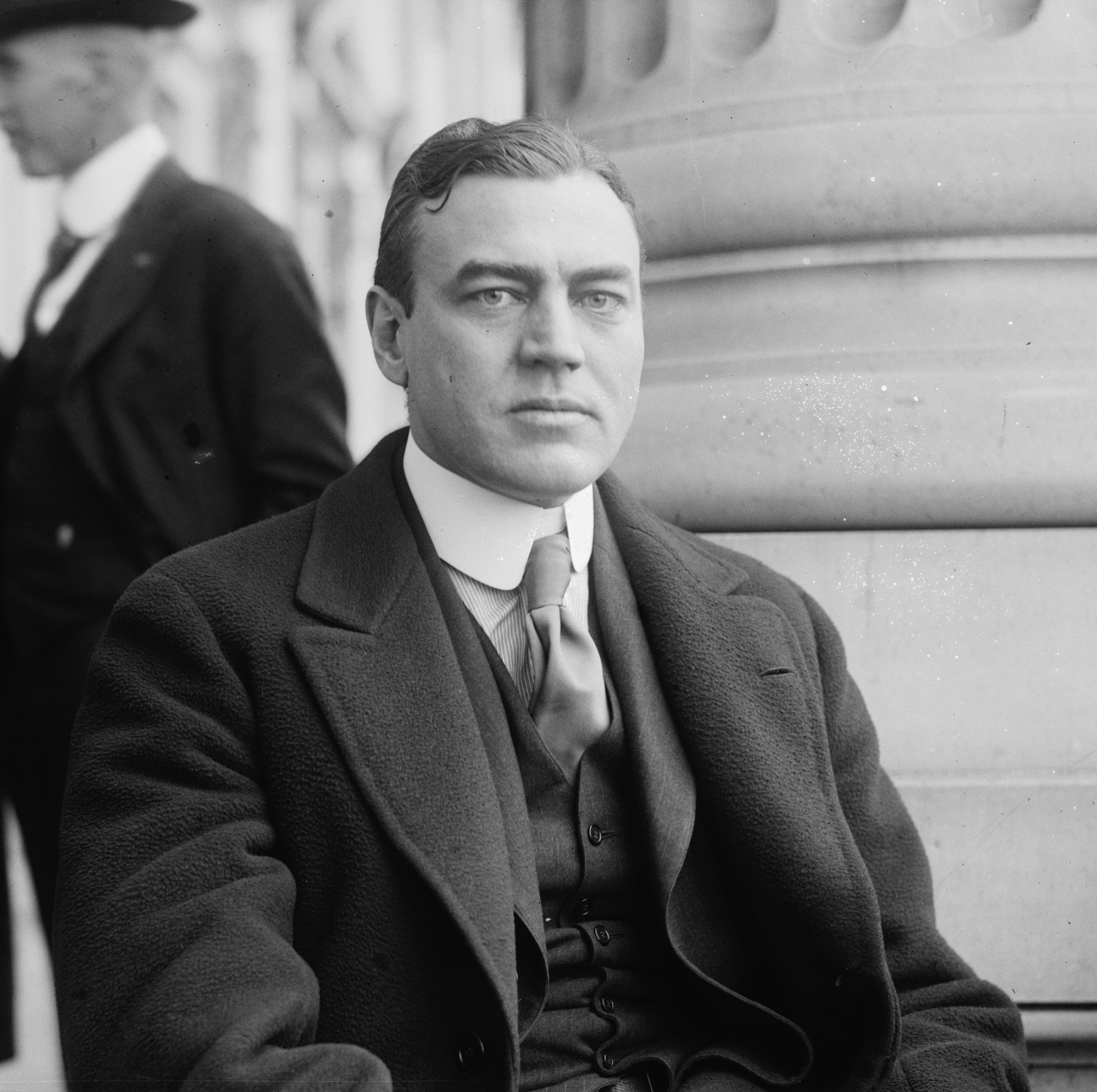 Hamilton Fish III (1888 - 1991), a U.S. Representative from New York